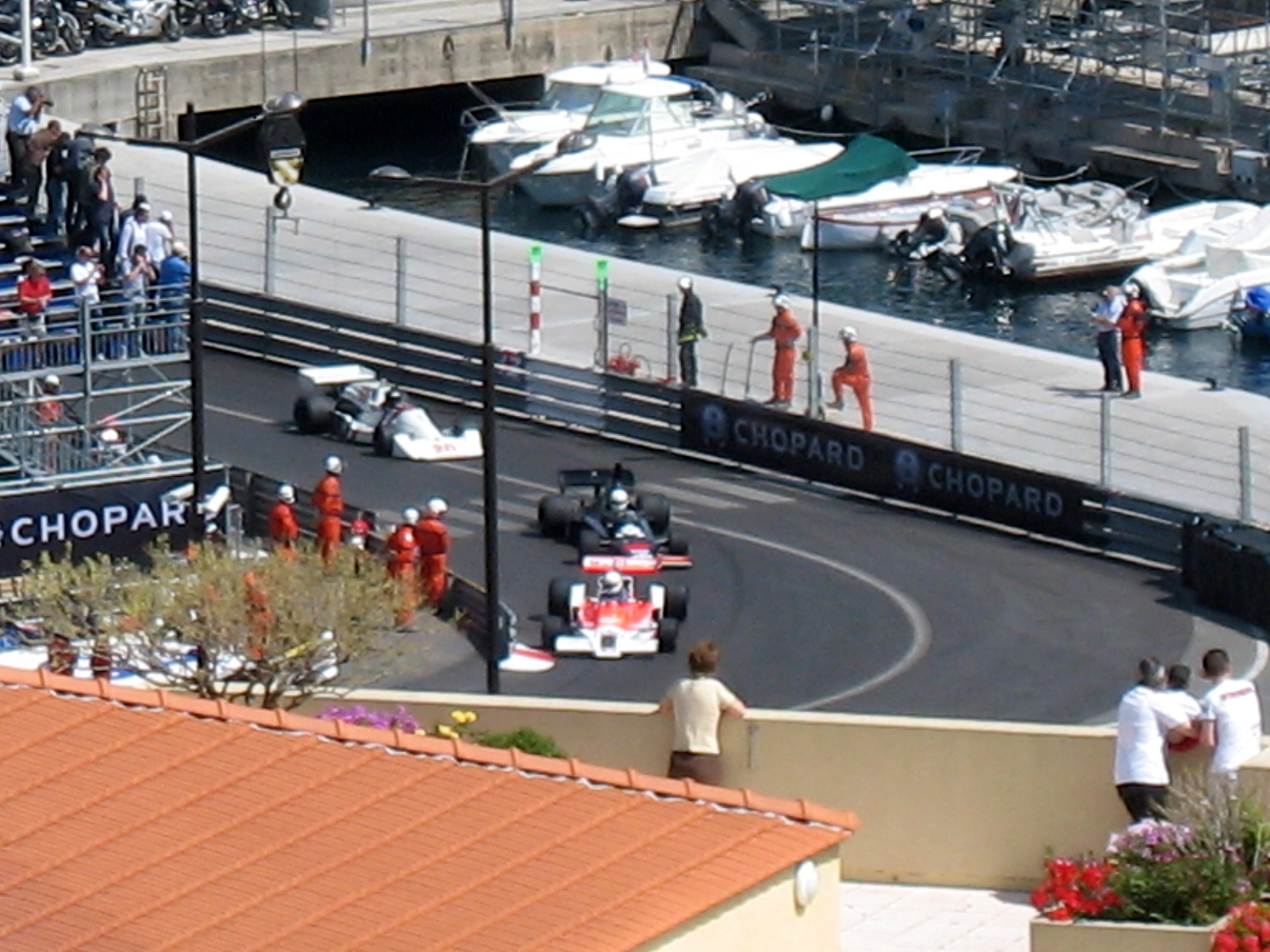 The Old-Car Grand Prix at Monaco.